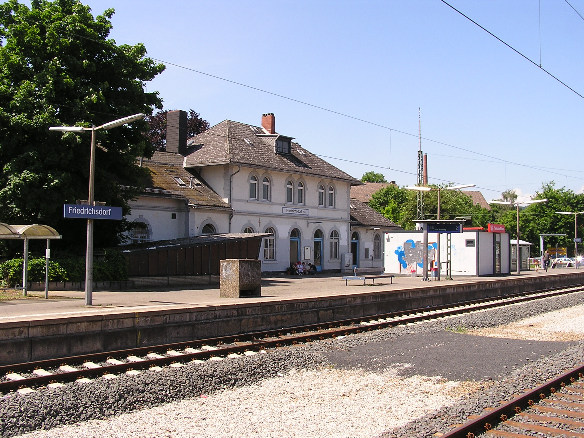 Building of the station Friedrichsdorf